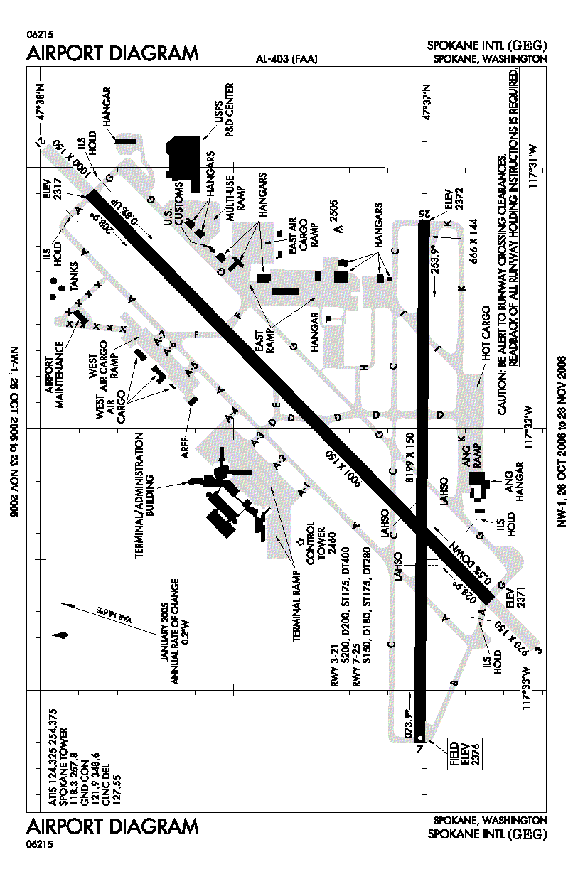 FAA airport diagram for GEG (Spokane International Airport) in Washington, United States.